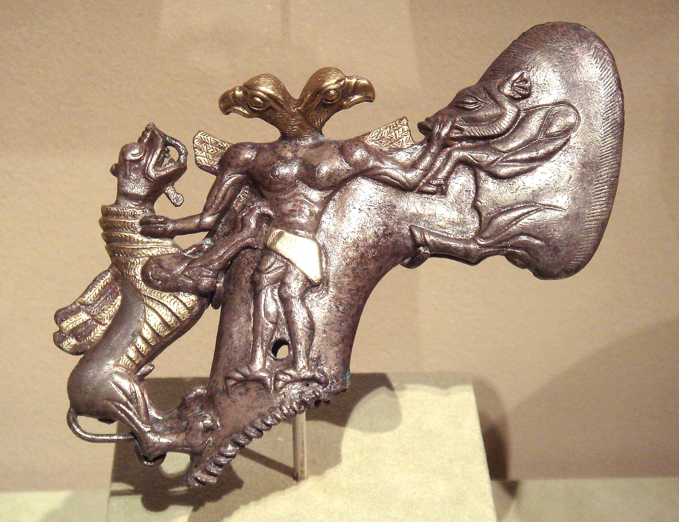 BMAC Axe With Eagle-Headed Demon And Animals, from Central Asia (Bactria-Margiana), late 3rd - early 2nd millennium BC.